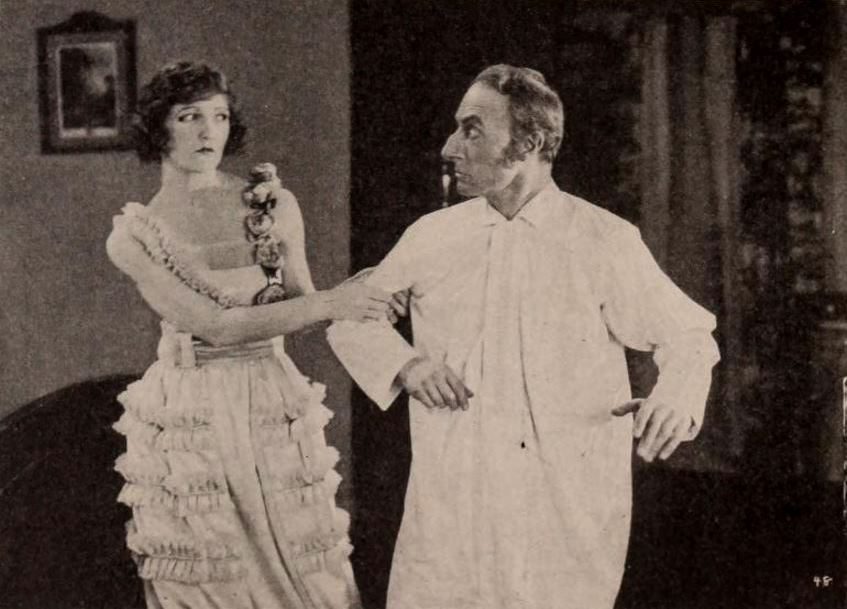 Still from the American comedy romance film The Love Expert (1920) with Constance Talmadge and Arnold Lucy, on page 69 of the May 29, 1920 Exhibitors Herald.